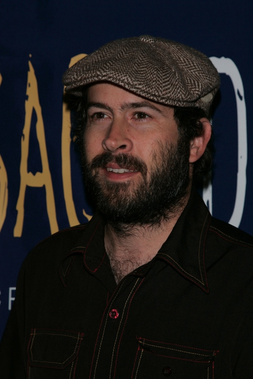 Jason Lee at the Los Angeles Film Festival on June 25, 2006